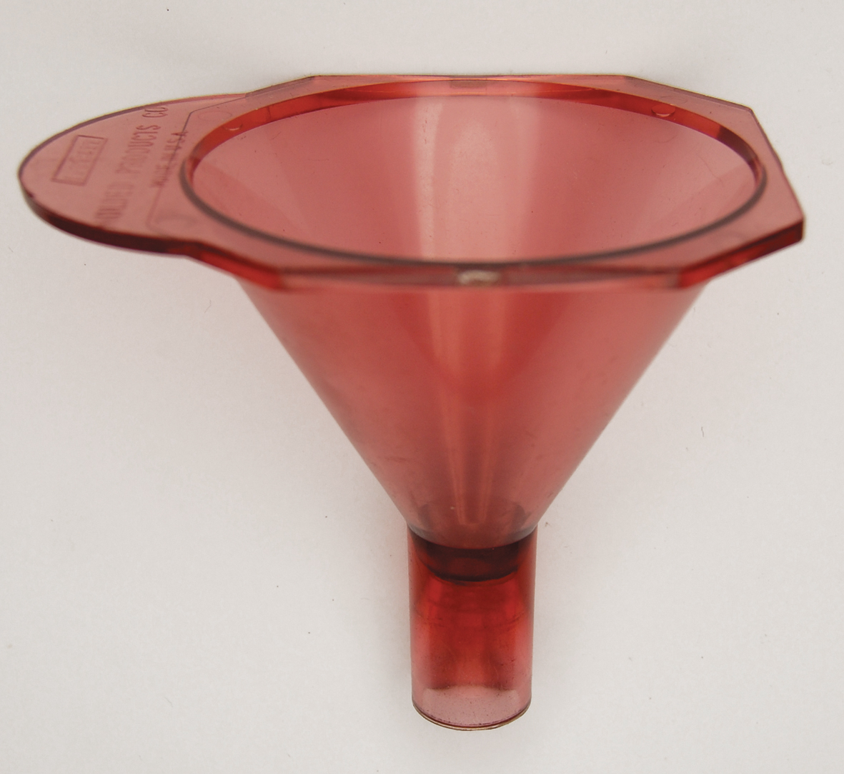 Powder Funnel